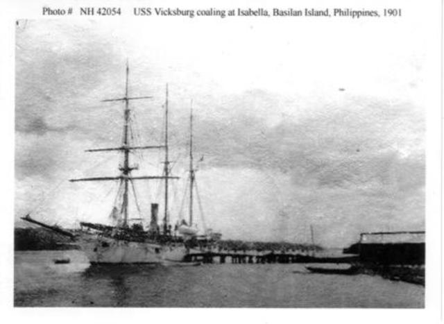 Photograph of USS Vicksburg coaling at Isabela Wharf, 1901.